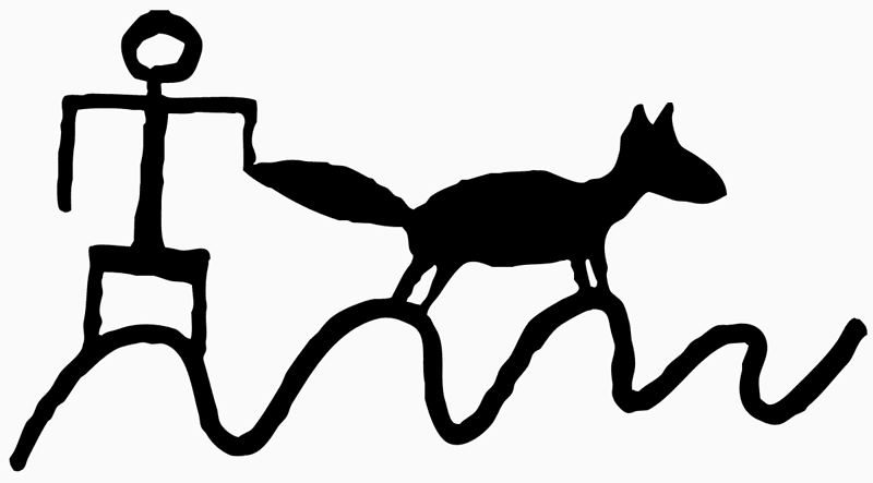 A man or shaman connected with his totem-spirit (Coyote), may be riding on a snake. (Petroglyph, Petrified Forest, Arizona, USA)